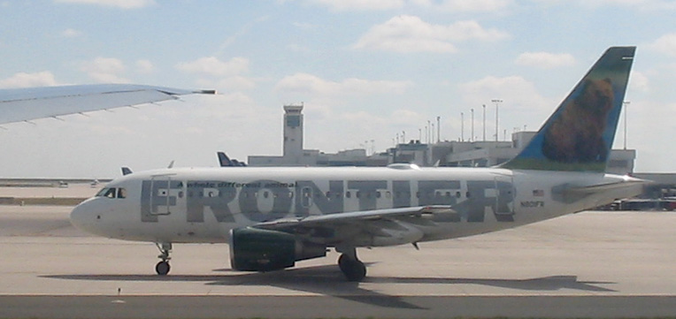 An Airbus A318-111 (N801FR) of Frontier Airlines at Denver International Airport. Behind the plane is Concourse B of the airport. David Benbennick took this photograph Friday, April 22, 2005 at 10:36 AM (local time). The view is through the window of this Boeing 777 while taxiing to the runway.